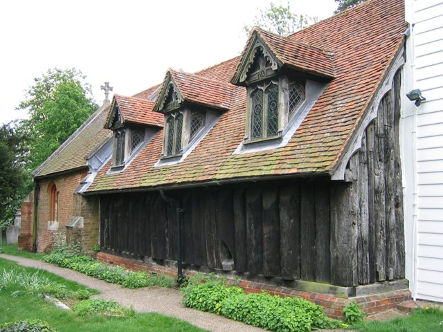 Greensted Wooden Church The less photographed northern side of this famous Anglo Saxon church. The unusual vertical split oak log construction can be seen clearly. The wikipedia page Greensted_Church explains the cut out section of tree trunk in the wall.